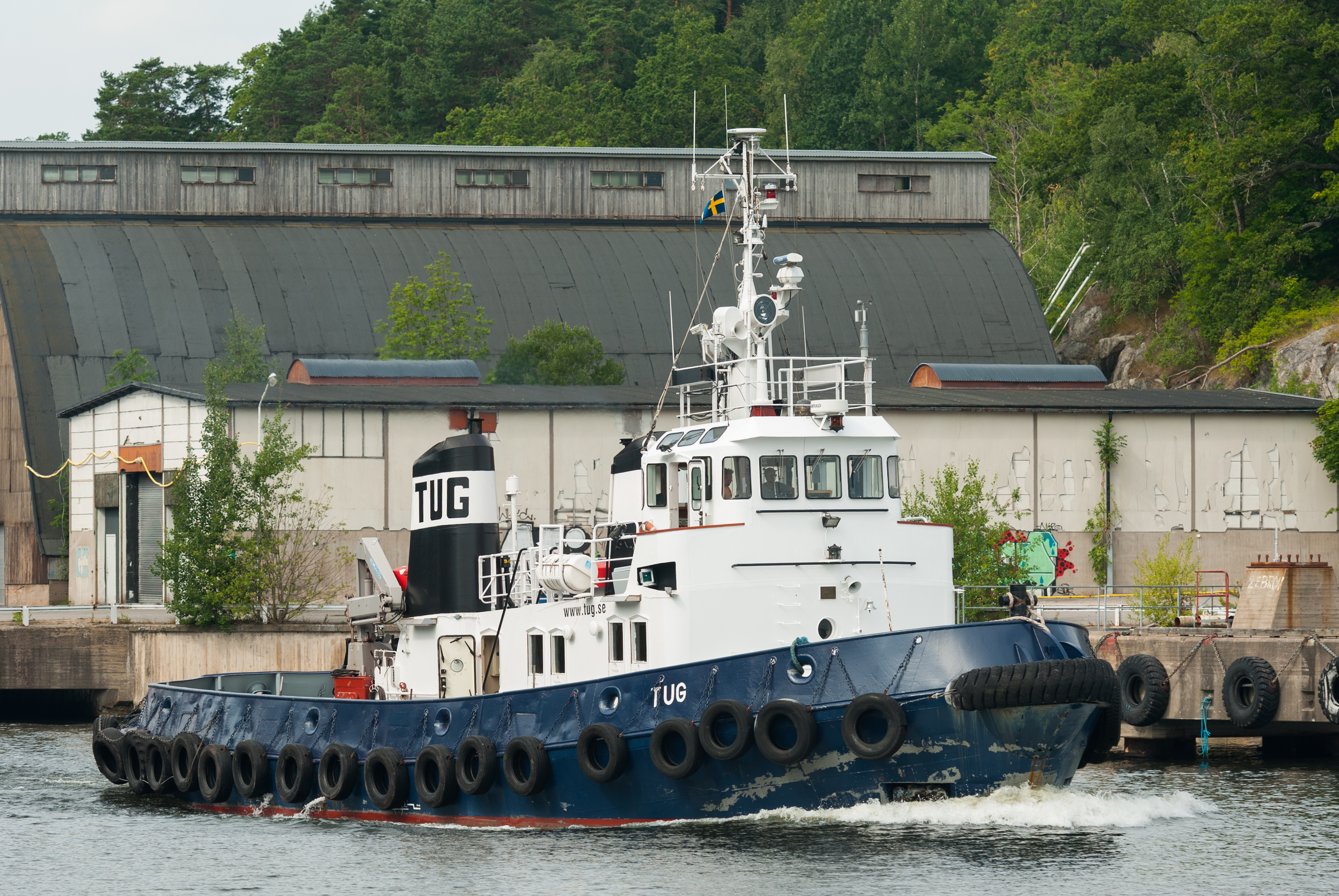 Tugboat Tug at Svindersviken, Nacka, Stockholm, Sweden.